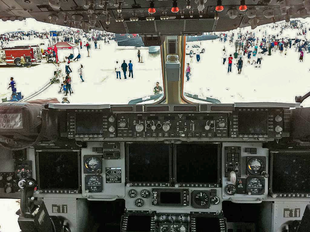 The cockpit of a C-17 Globemaster III from Travis AFB (CA), exposed at Andrews Air show 2011 (Joint Open Service House).